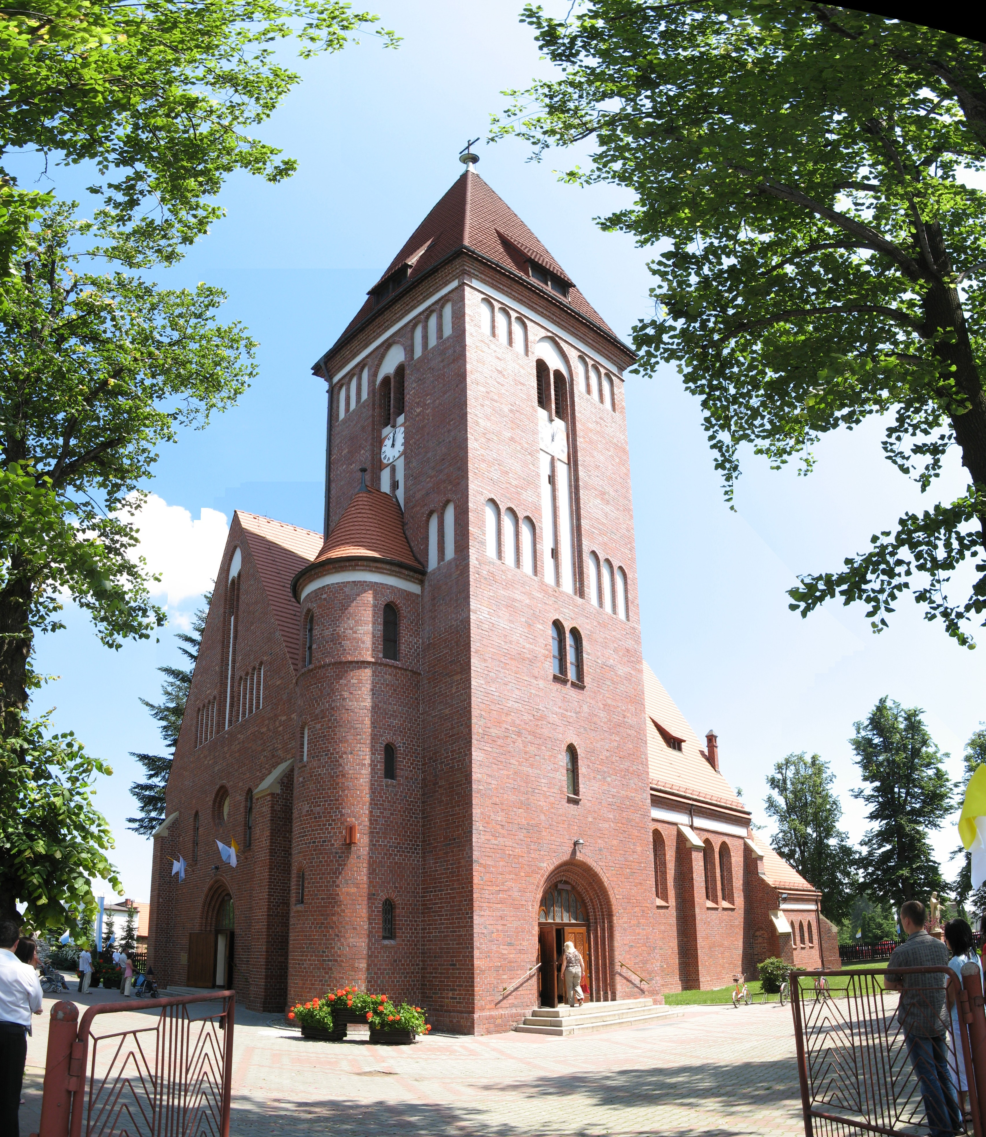 The Church of the Assumption of the Blessed Virgin Mary, Kobiór, district Pszczyna, Silesia, Poland